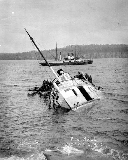 Iroquois (steamboat) sunk off Sidney, BC, 1911.